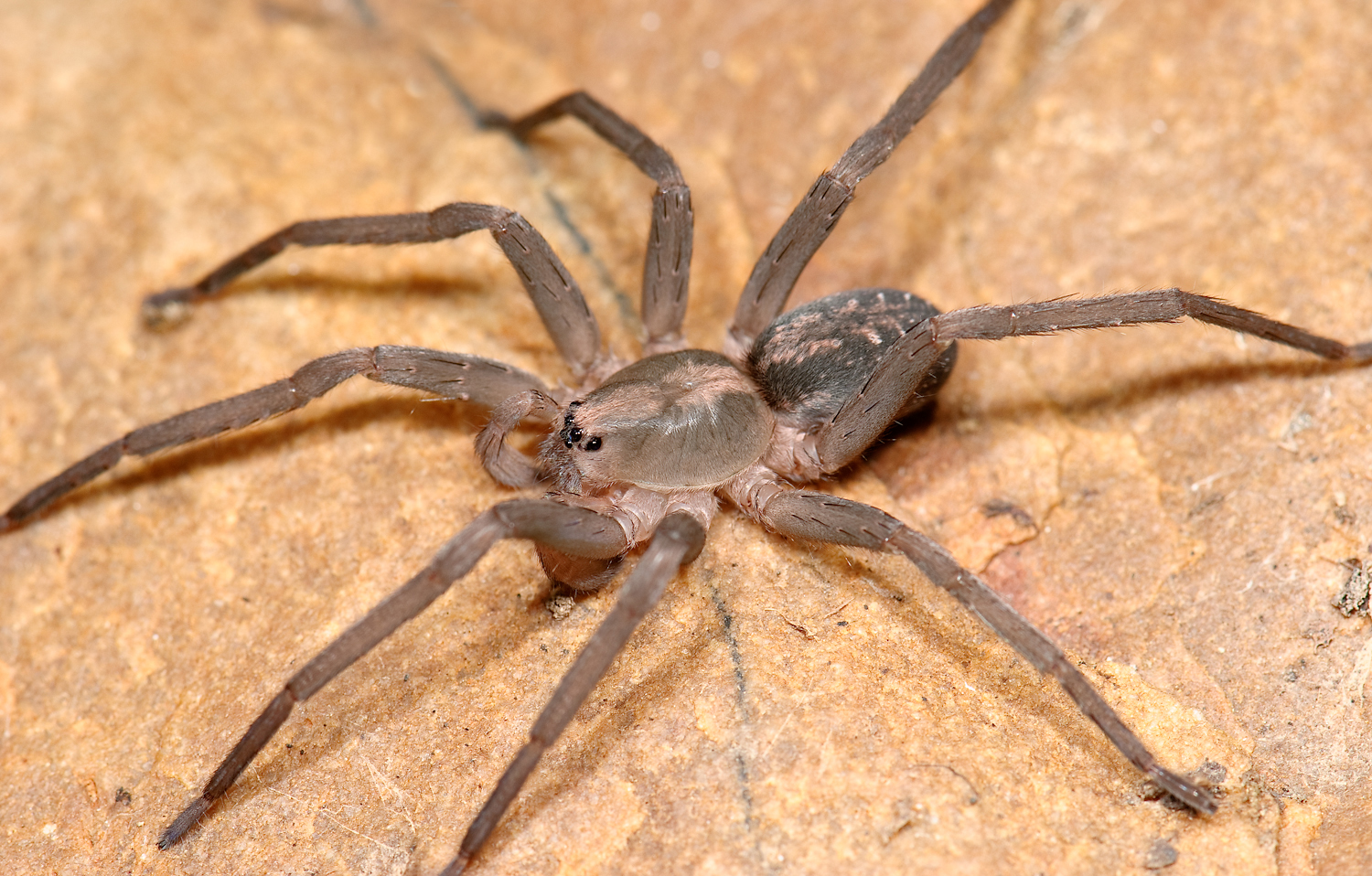 Ctenus exlineae (F Ctenidae), teneral penultimate male, found under large rock, photographed in situ